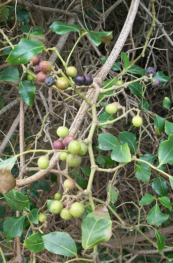 Rhoicissus rhomboidea supported by Mimusops caffra, Amanzimtoti.